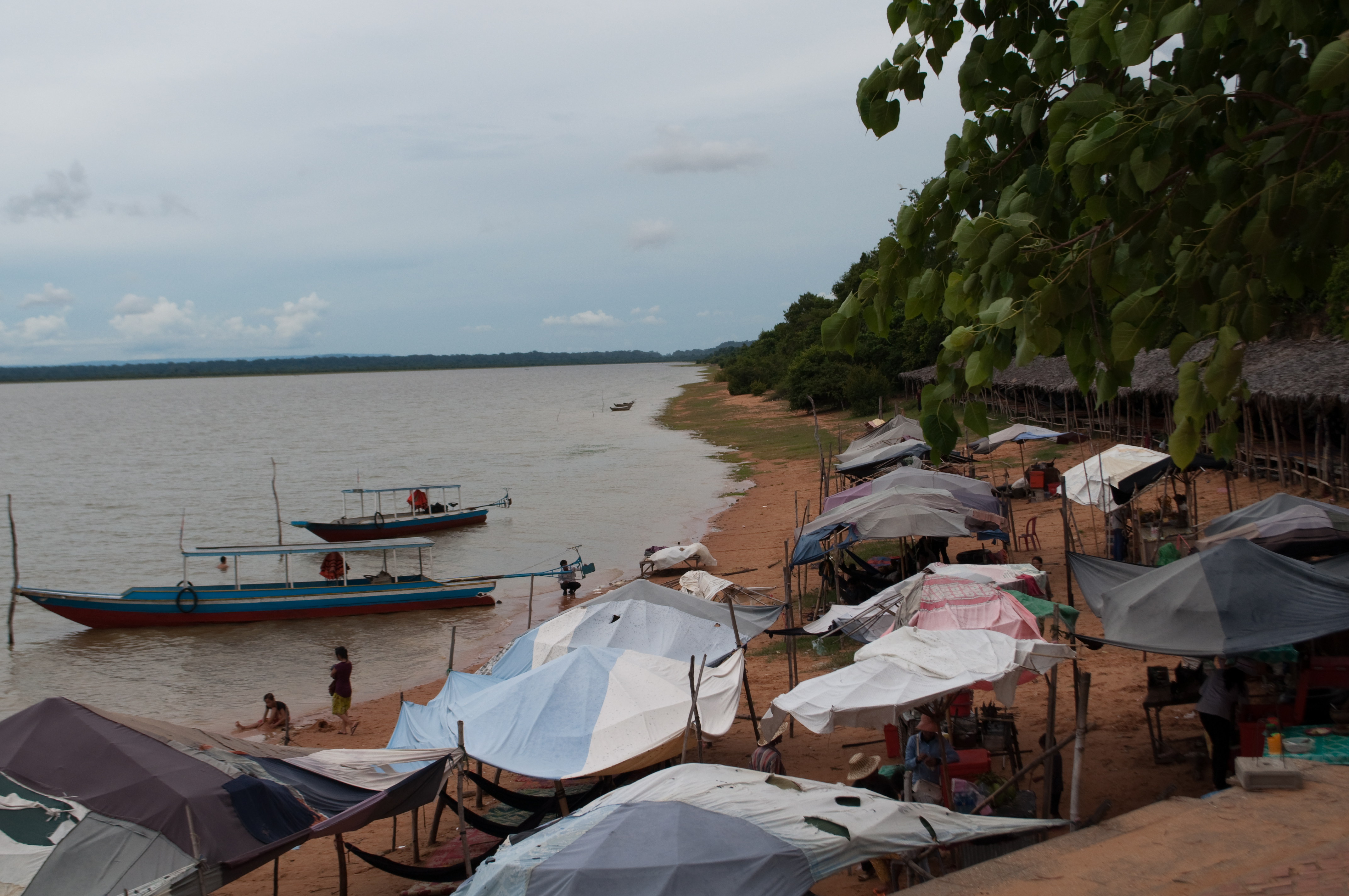 Beach at the Western Baray